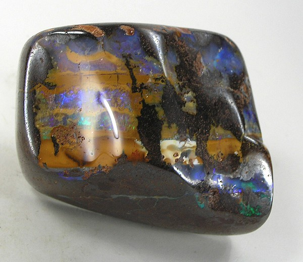 Opal Locality: Lightning Ridge, Finch County, New South Wales, Australia (Locality at ) Size: 6.7 x 5.9 x 3.9 cm. Precious opal in seams still embedded in matrix rock like this are called "boulder" opals. Here, you have shimmering, fiery greens and blues contrasting with the surrounding iron-rich orange rock - truly pretty!